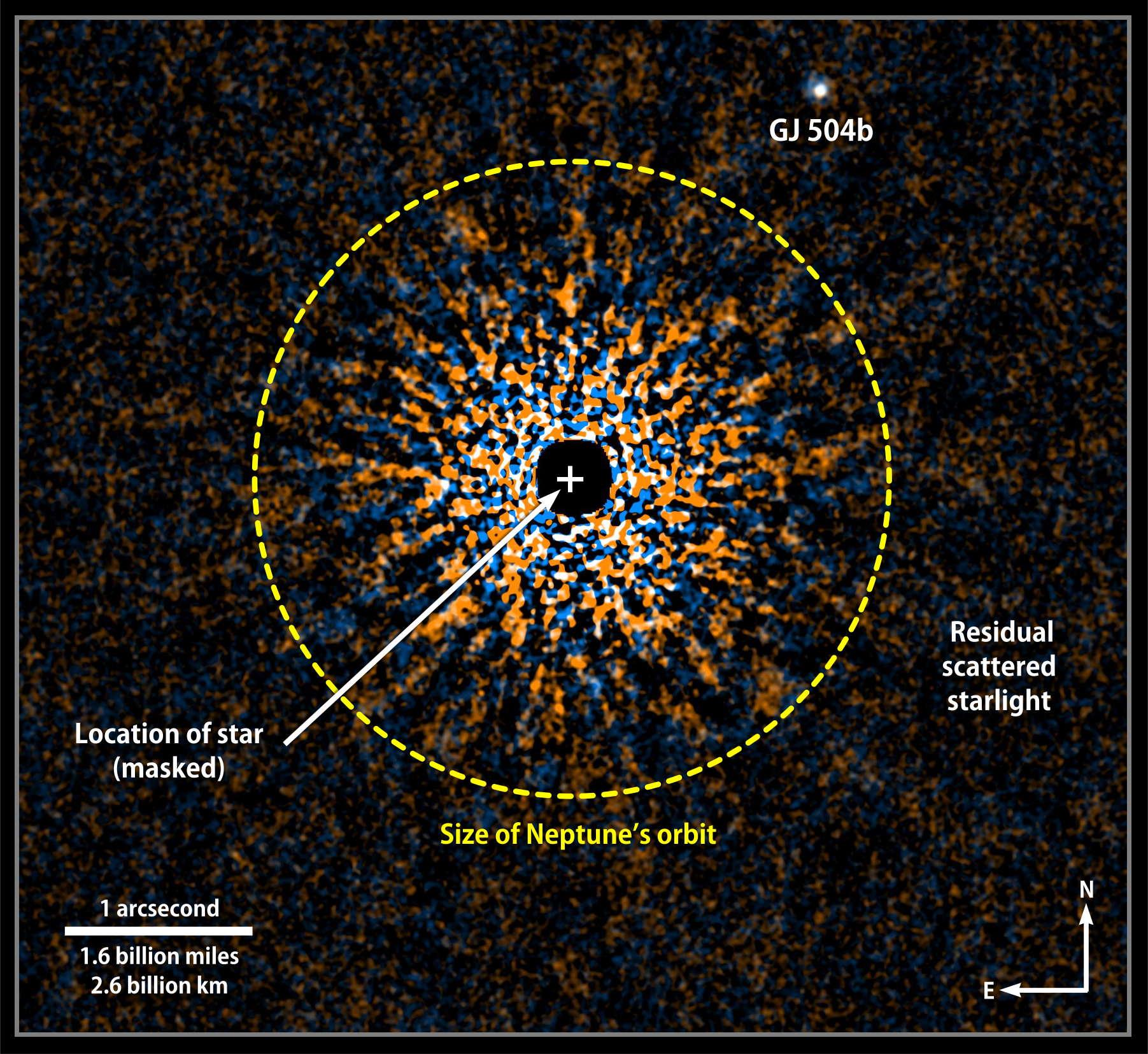 This composite combines Subaru images of GJ 504 using two near-infrared wavelengths (orange, 1.6 micrometers (H band), taken 22 May 2011; blue, 1.2 micrometers (J band), 12 April 2012). Once processed to remove scattered starlight, the images reveal the orbiting planet, GJ 504b.